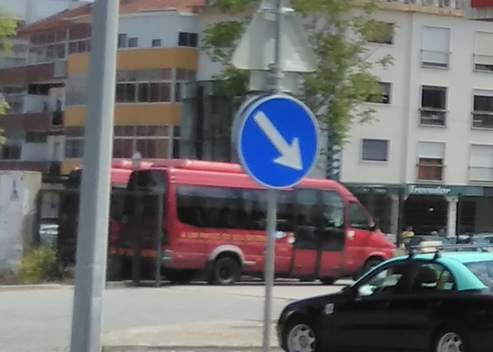 Tomar bus station adjcent to Tomar train station